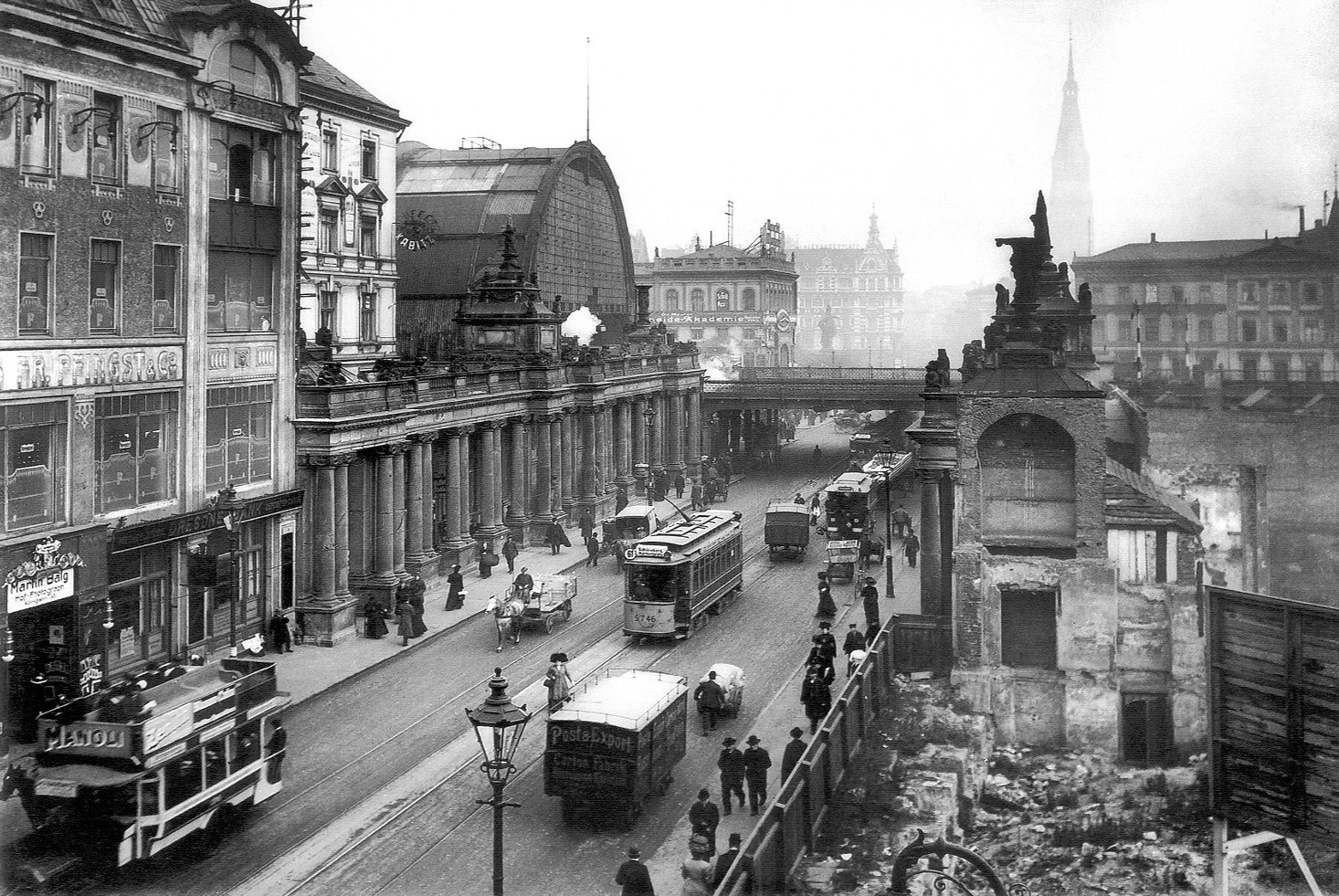 Königstraße at Berlin, Germany; view towards Alexanderplatz, train station on the left side, in the background the Georgenkirche, in the foreground the building on the left with with the entrance to the studio of the prussian court photographer Martin Balg